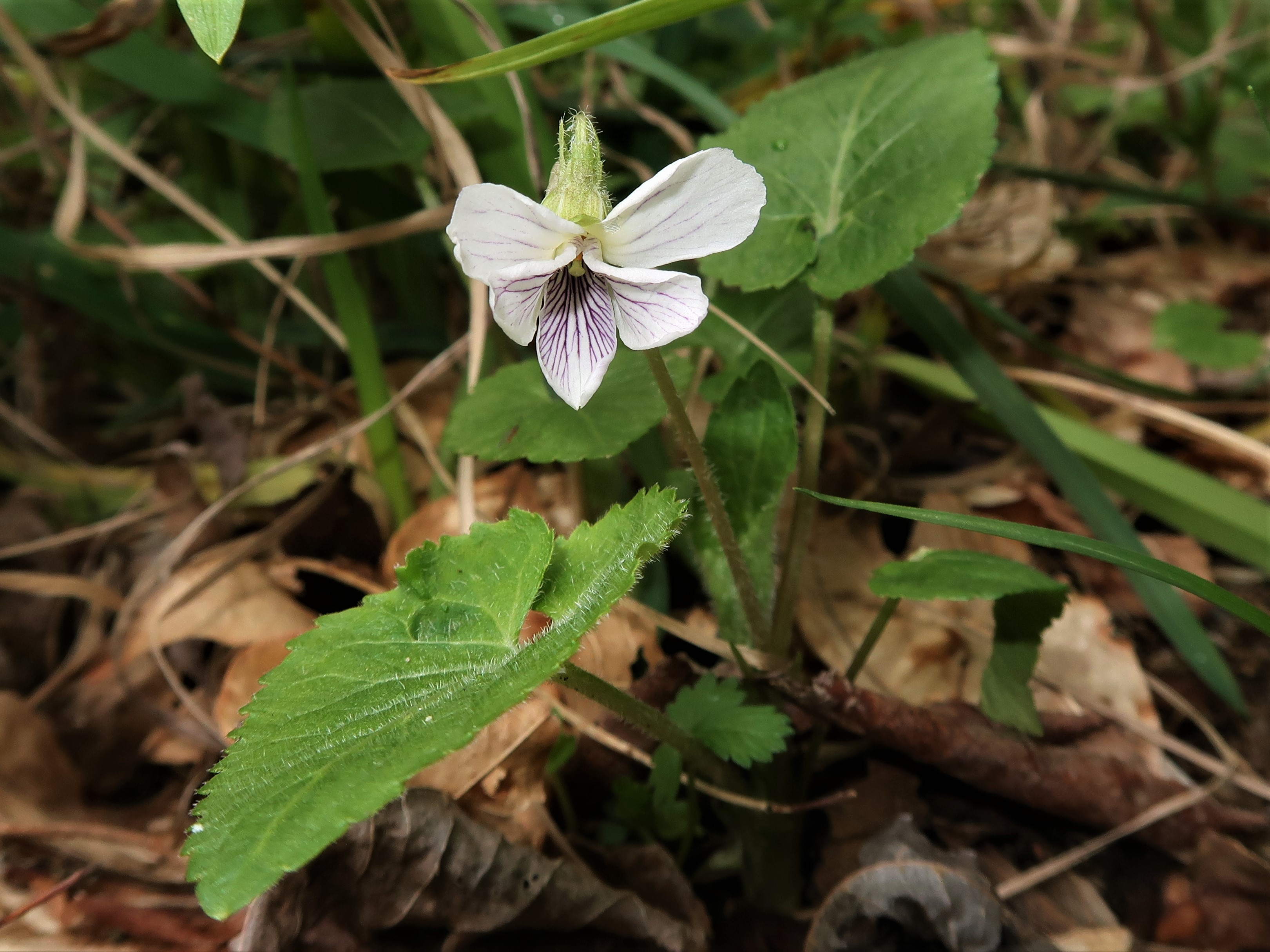 Viola yezoensis, Hama-dori area, Fukushima pref., Japan